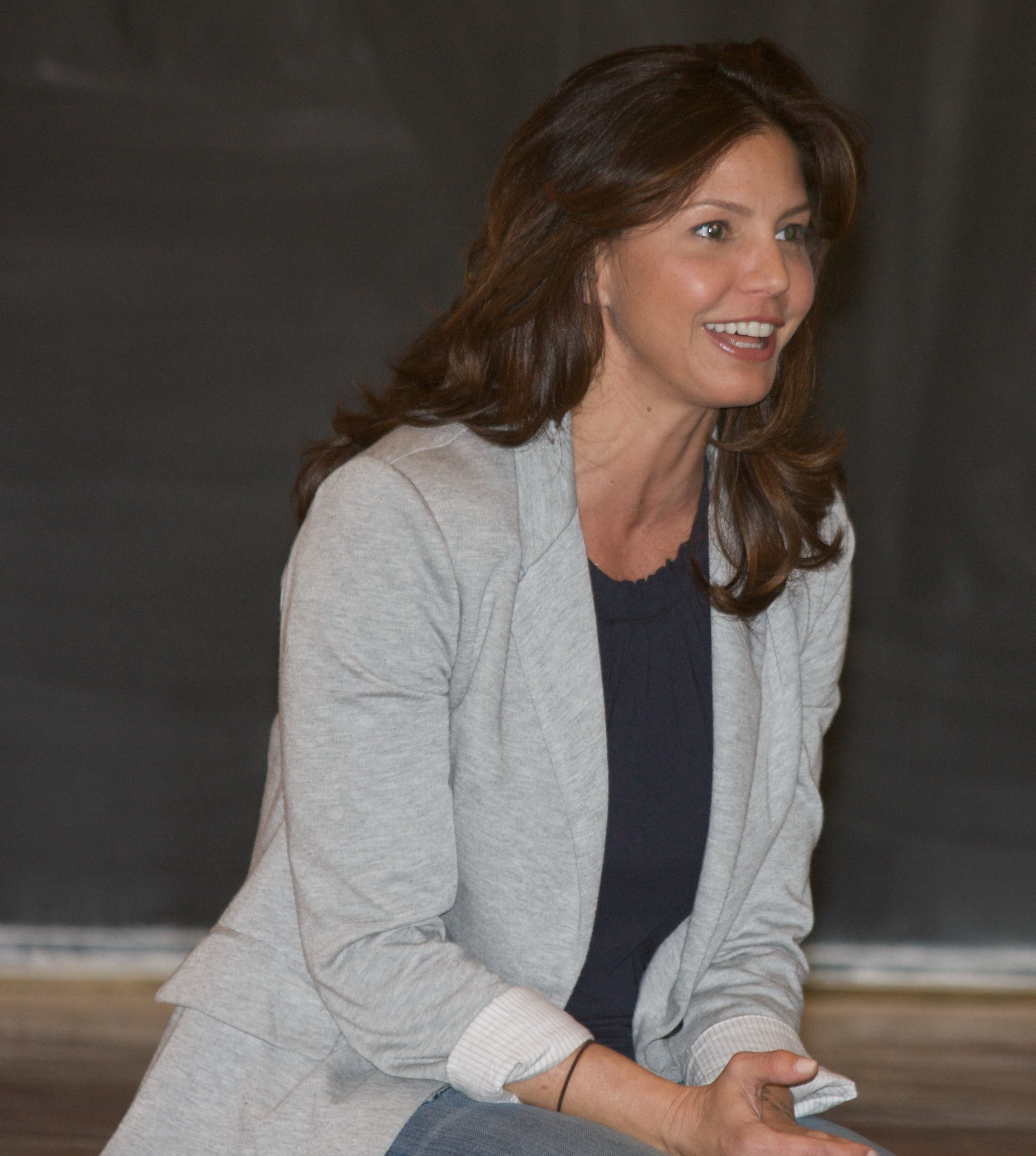 Actress Charisma Carpenter at the Q&A session, I-Con 2010. State University of New York at Stony Brook (Stony Brook University) Stony Brook, Long Island, USA.